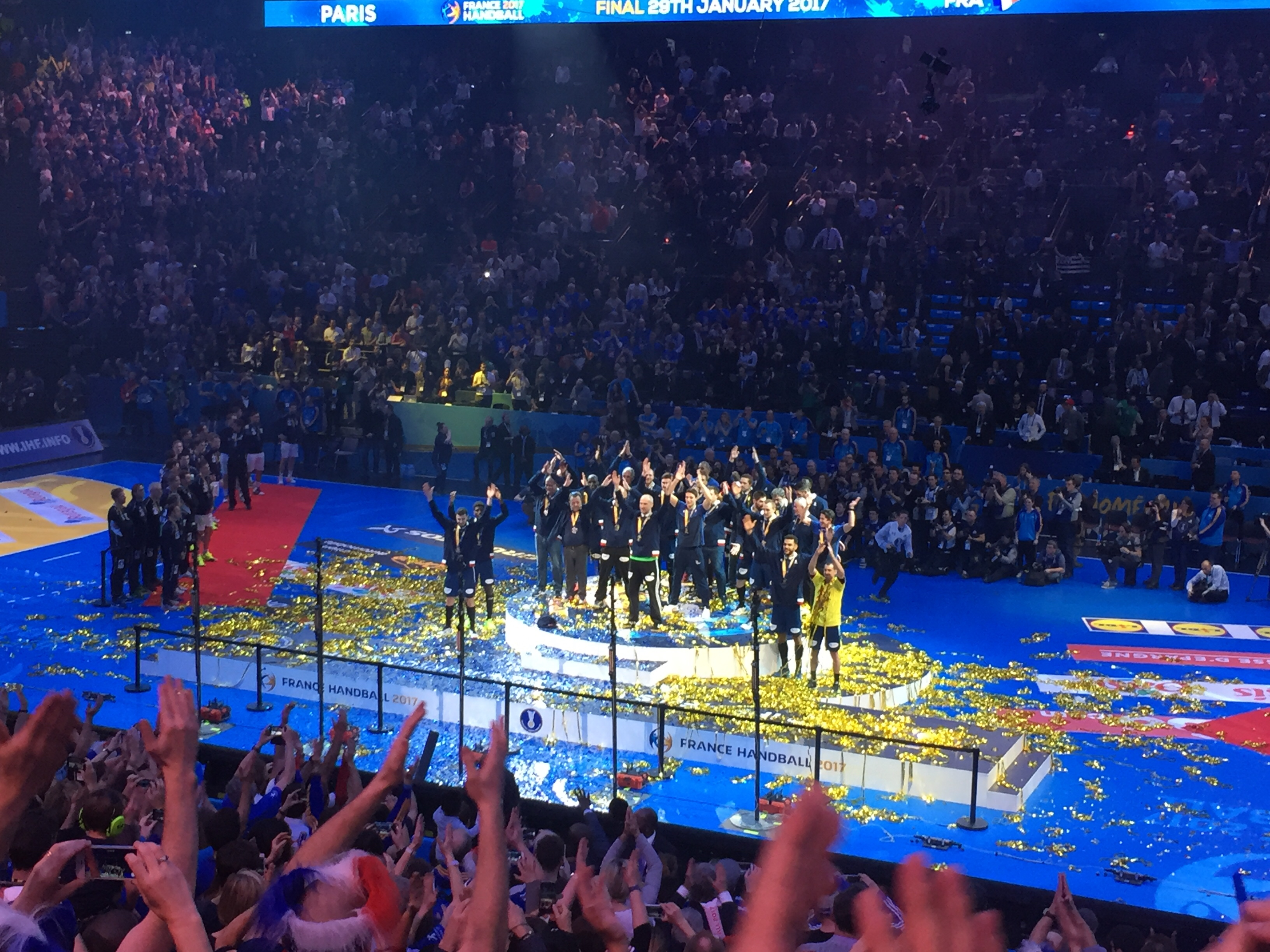 France handball 2017 finale France-Norvege 33-26